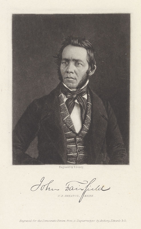 John Fairfield (1797-1847)